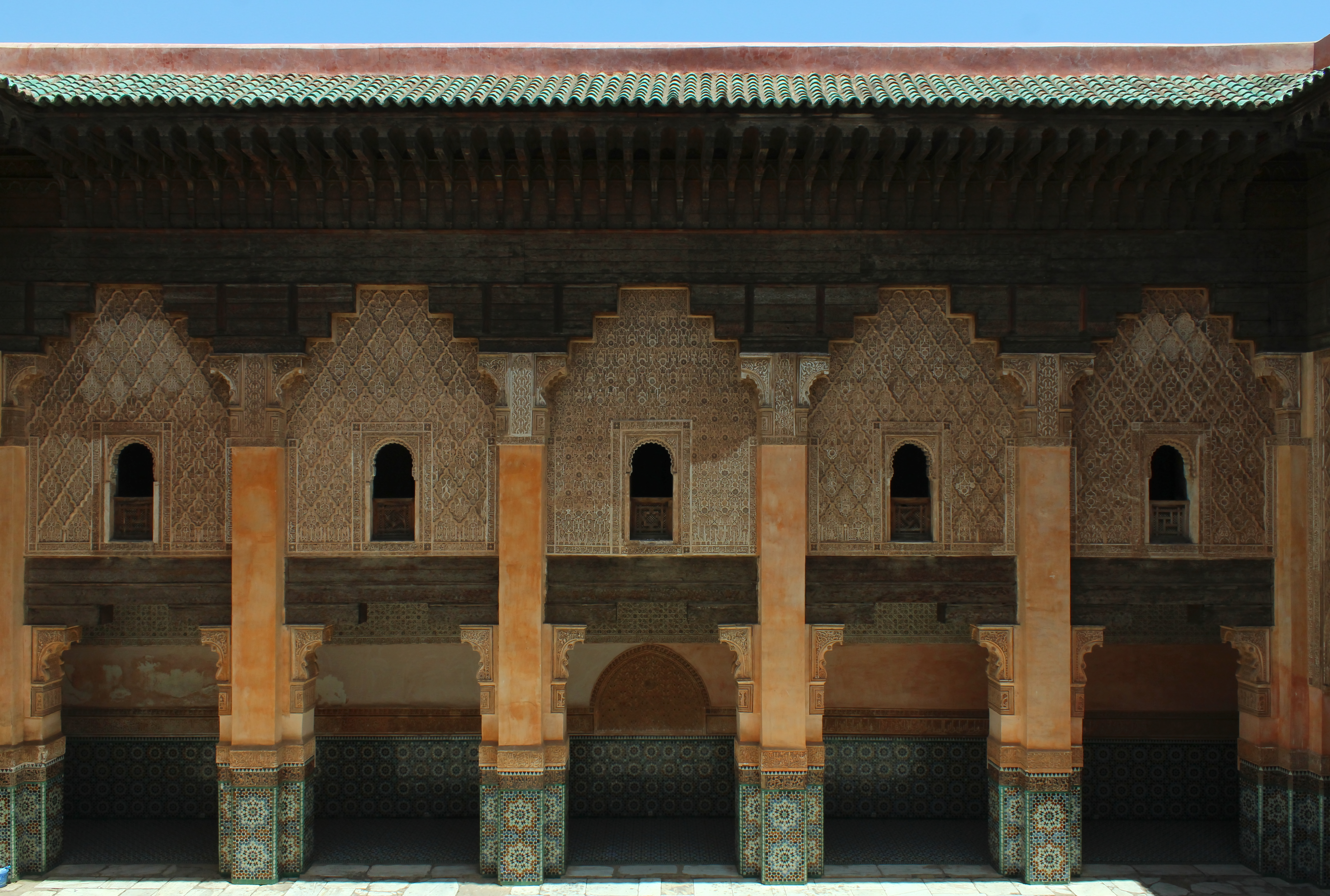 South-west interior facade of the Ben Youssef Madrasa, Morocco.